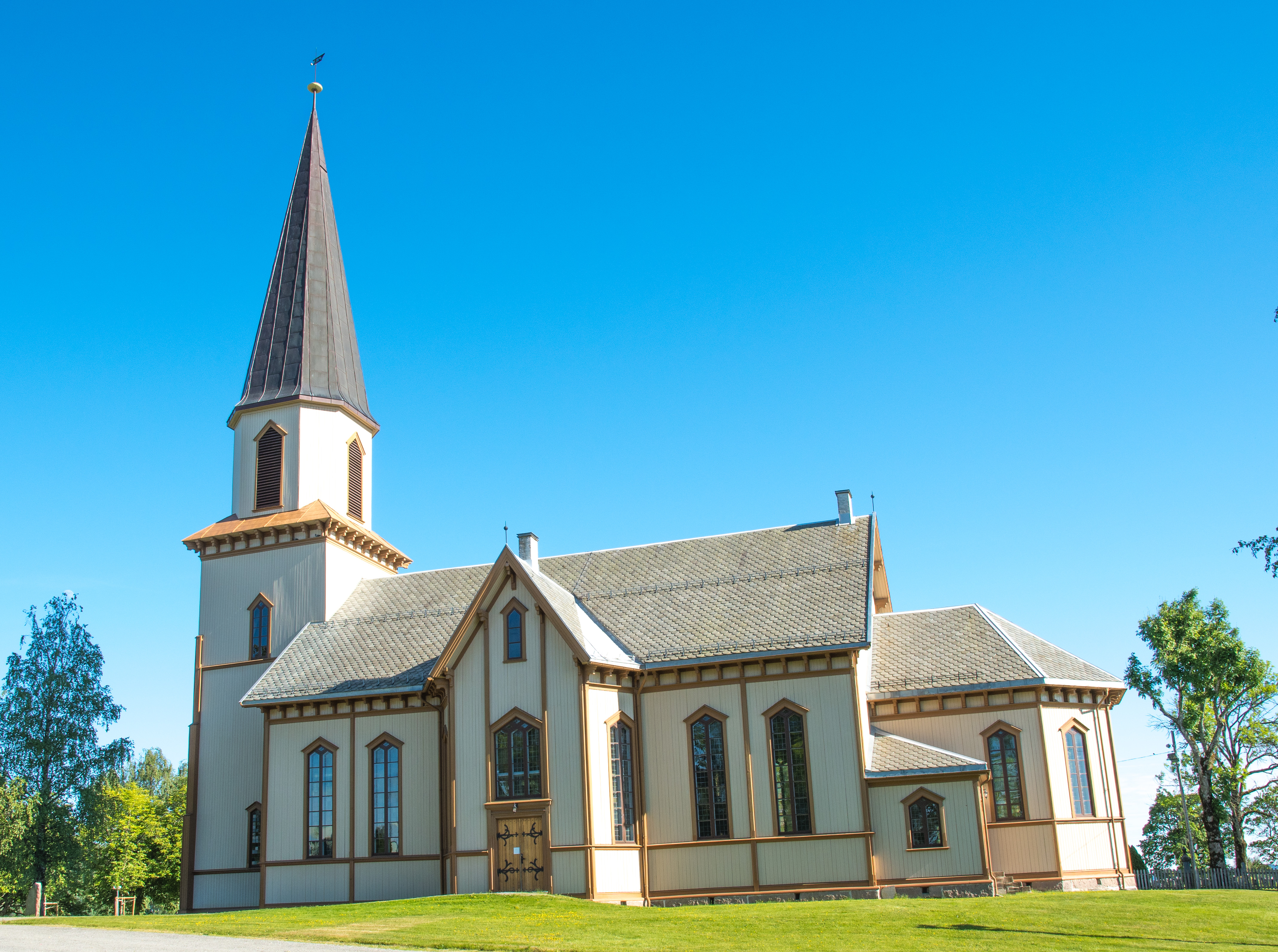 Fet Church